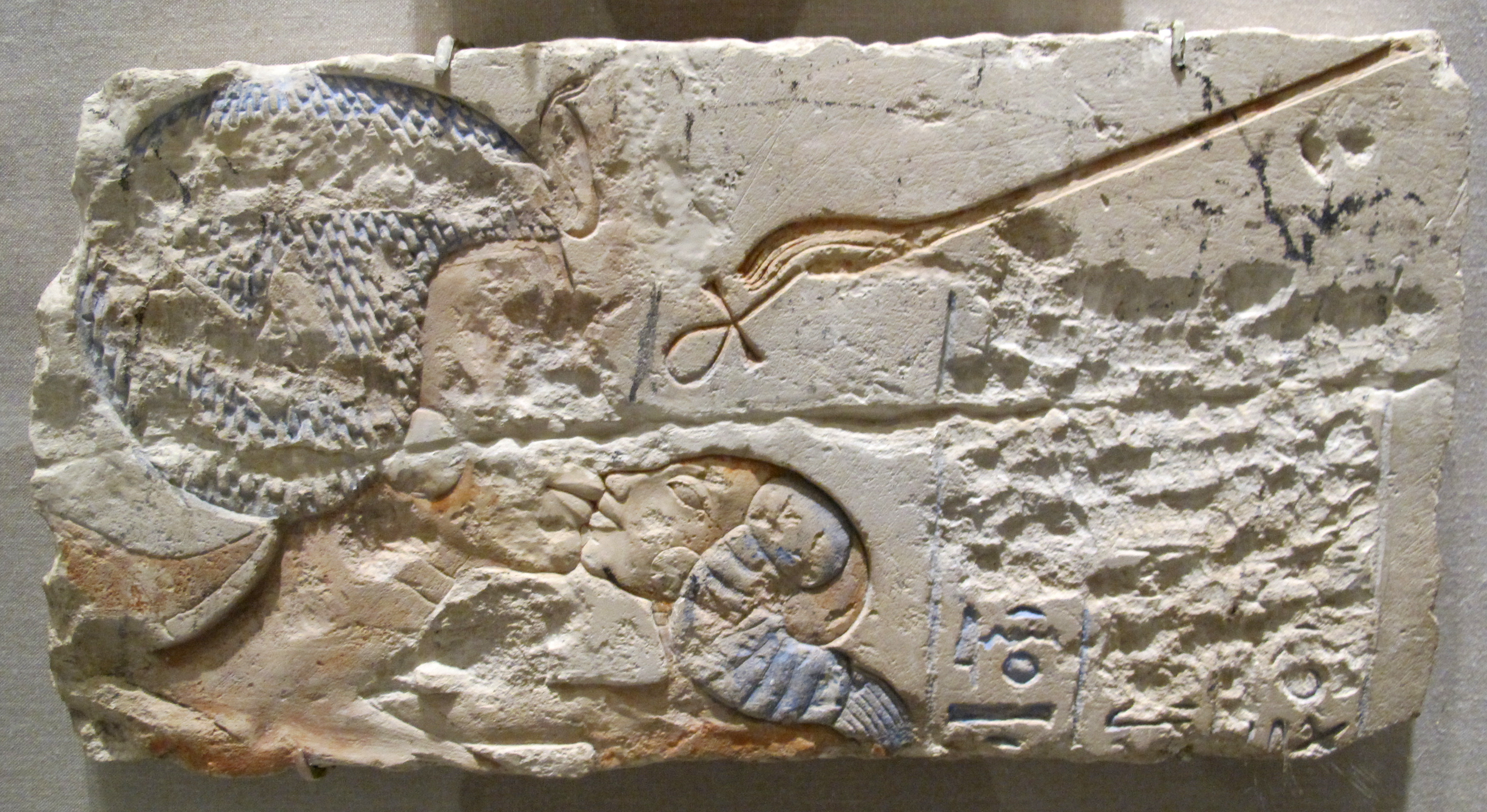 Egyptian antiquities in the Brooklyn Museum